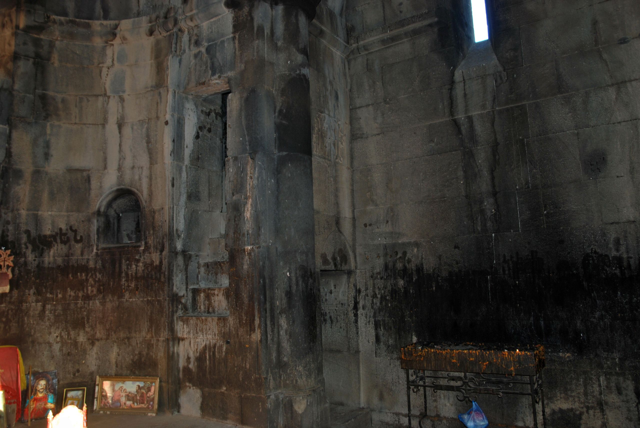 Tanahat, Surp Stepanos, apse